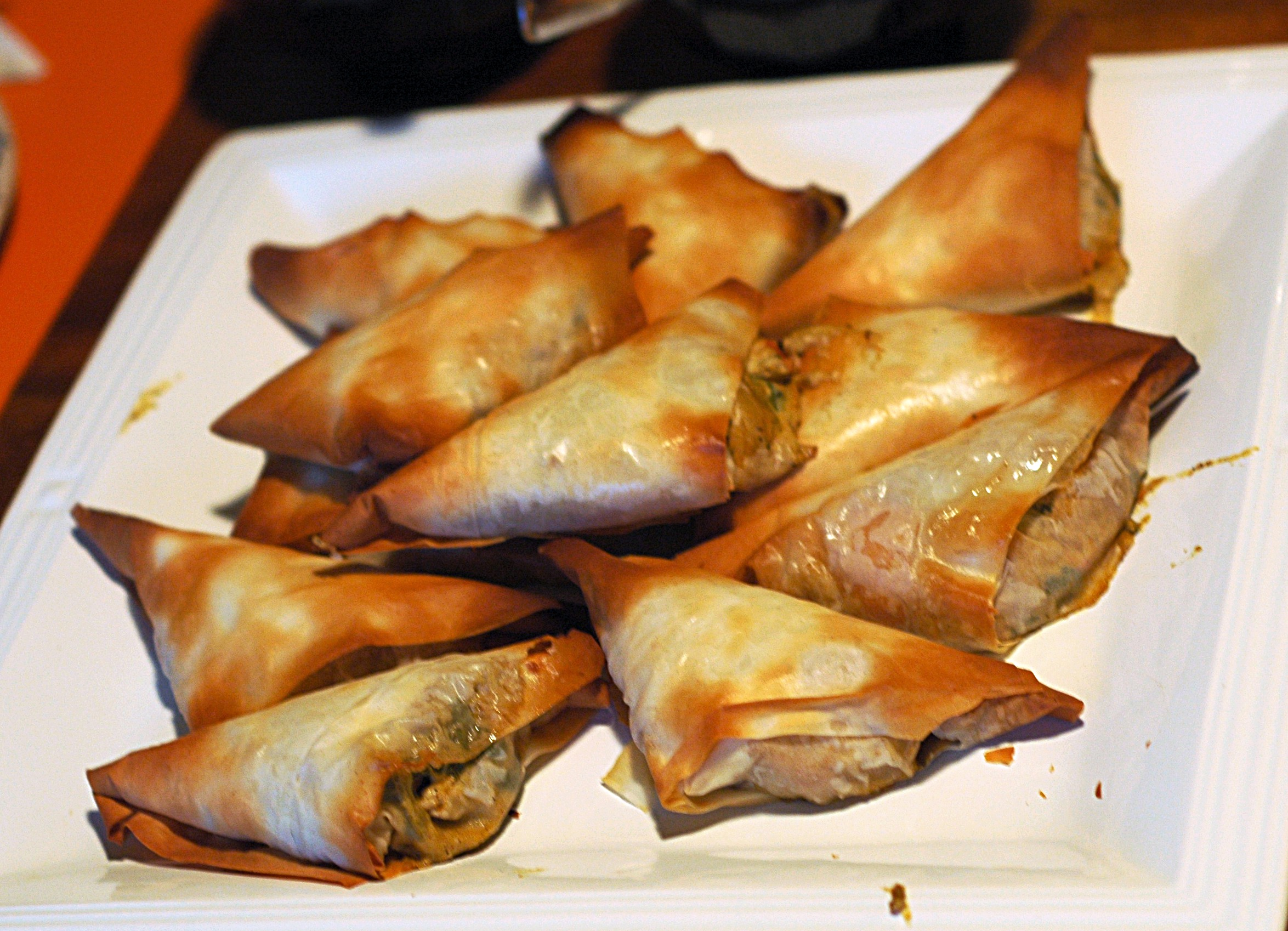 Briouat, a part of Moroccan cuisine